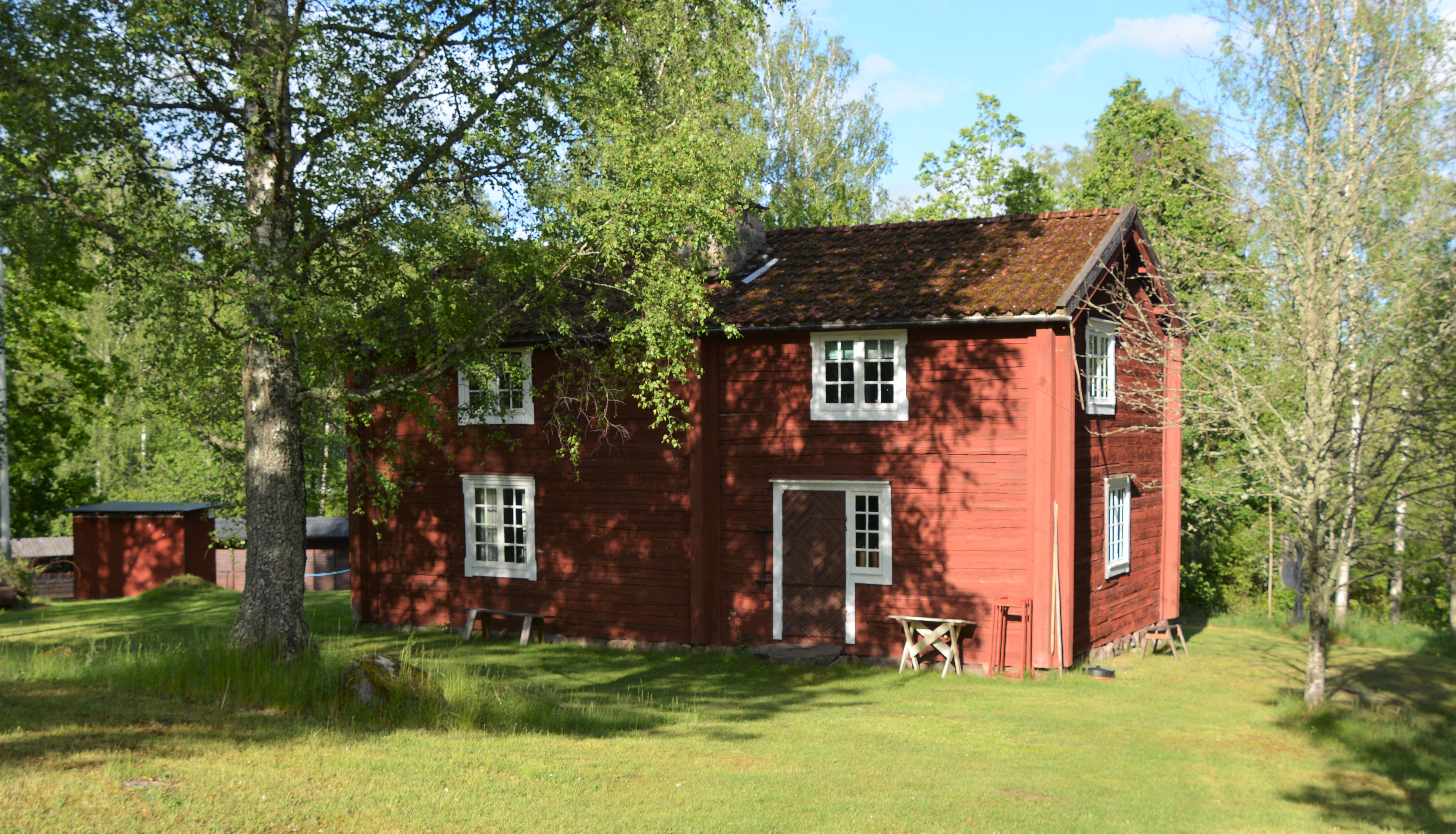 Fagerströmsstugan i Virserums hembygdspark